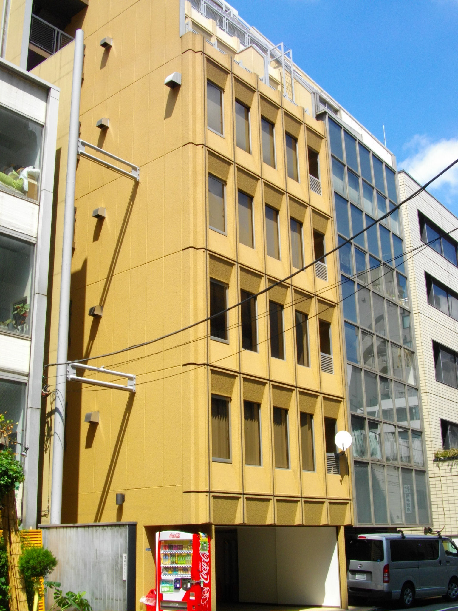 Ryushin Building